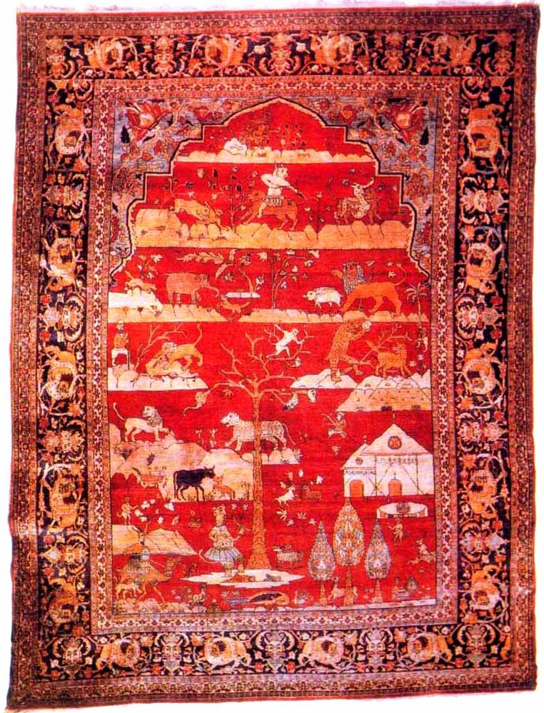 Azeri Vaq-vaq carpet from Heriz, Iranian Azerbaijan. XVI century.